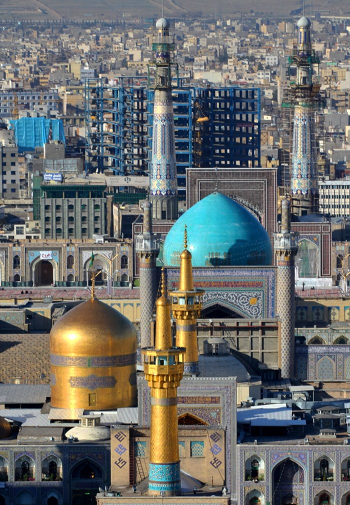 Ali al Ridha Dome - Aerial view